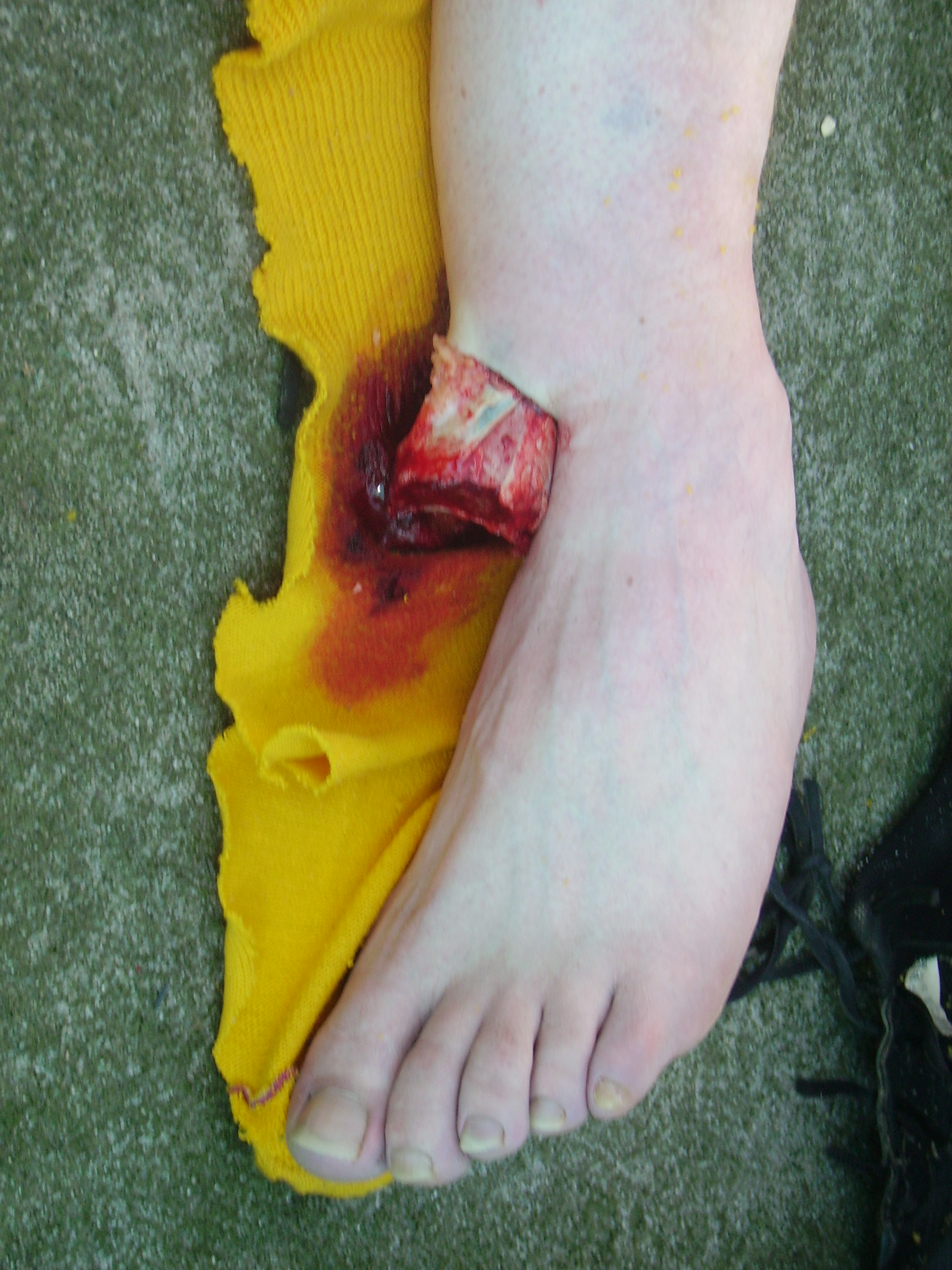 The picture shows an open fracture dislocation. The various tissue layers and the articular capsule can be easily seen.